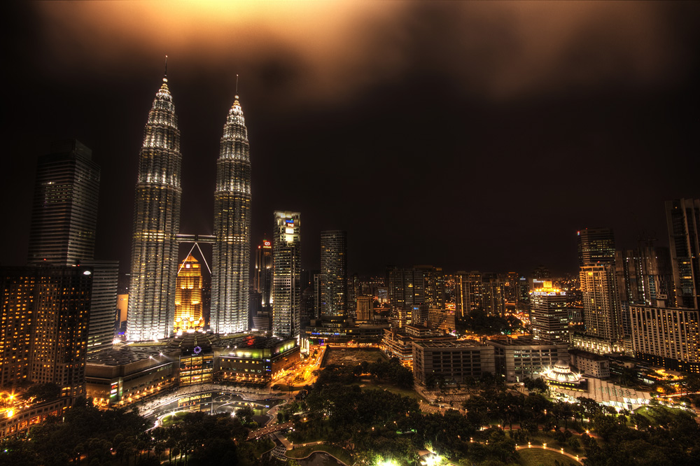 These spectacular towers are even more amazing at night HDR If you wish to use this image you can do so freely as long as you give credit to me for the picture by linking to my travel blog